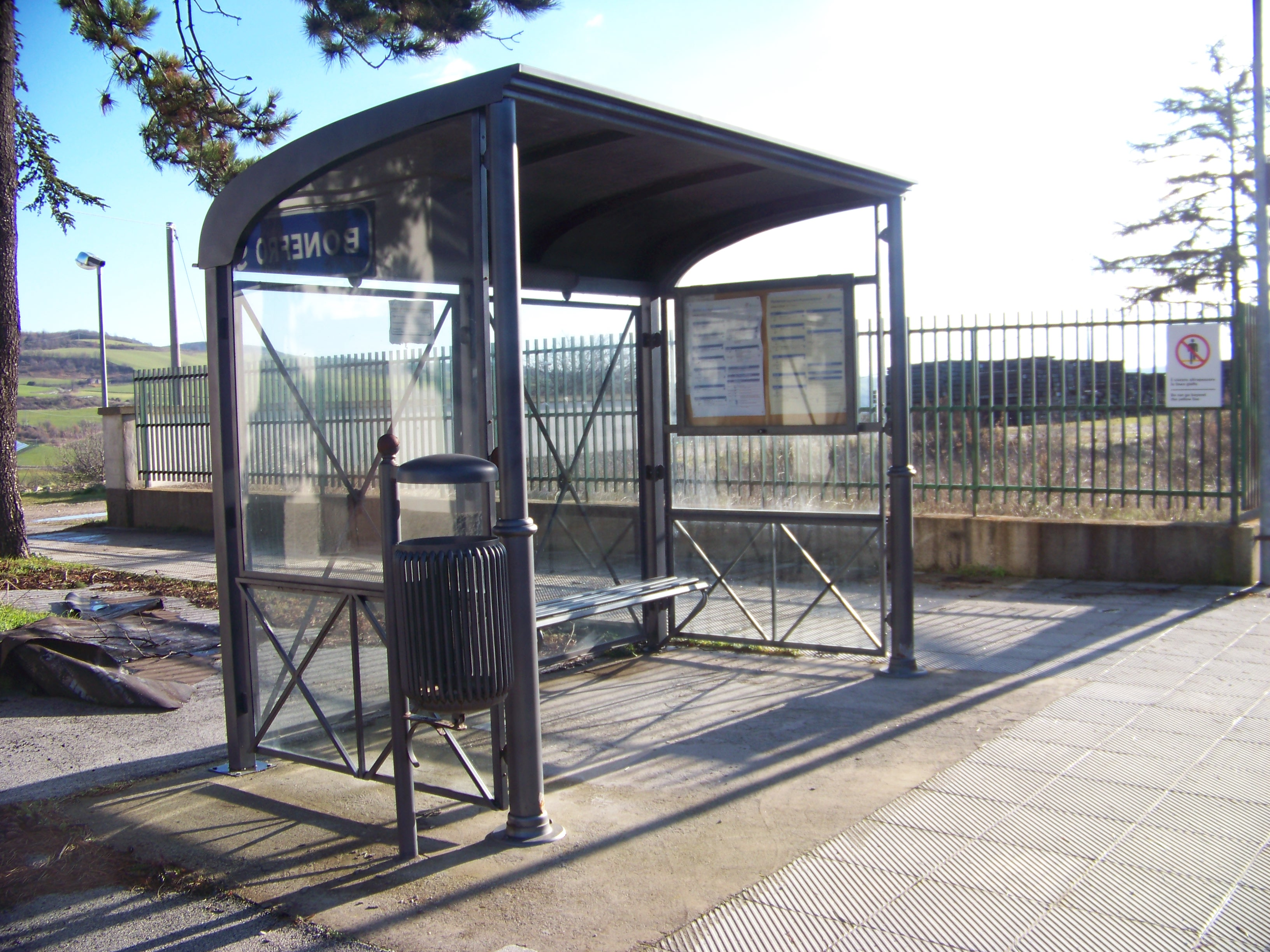 Bonefro-Santa Croce